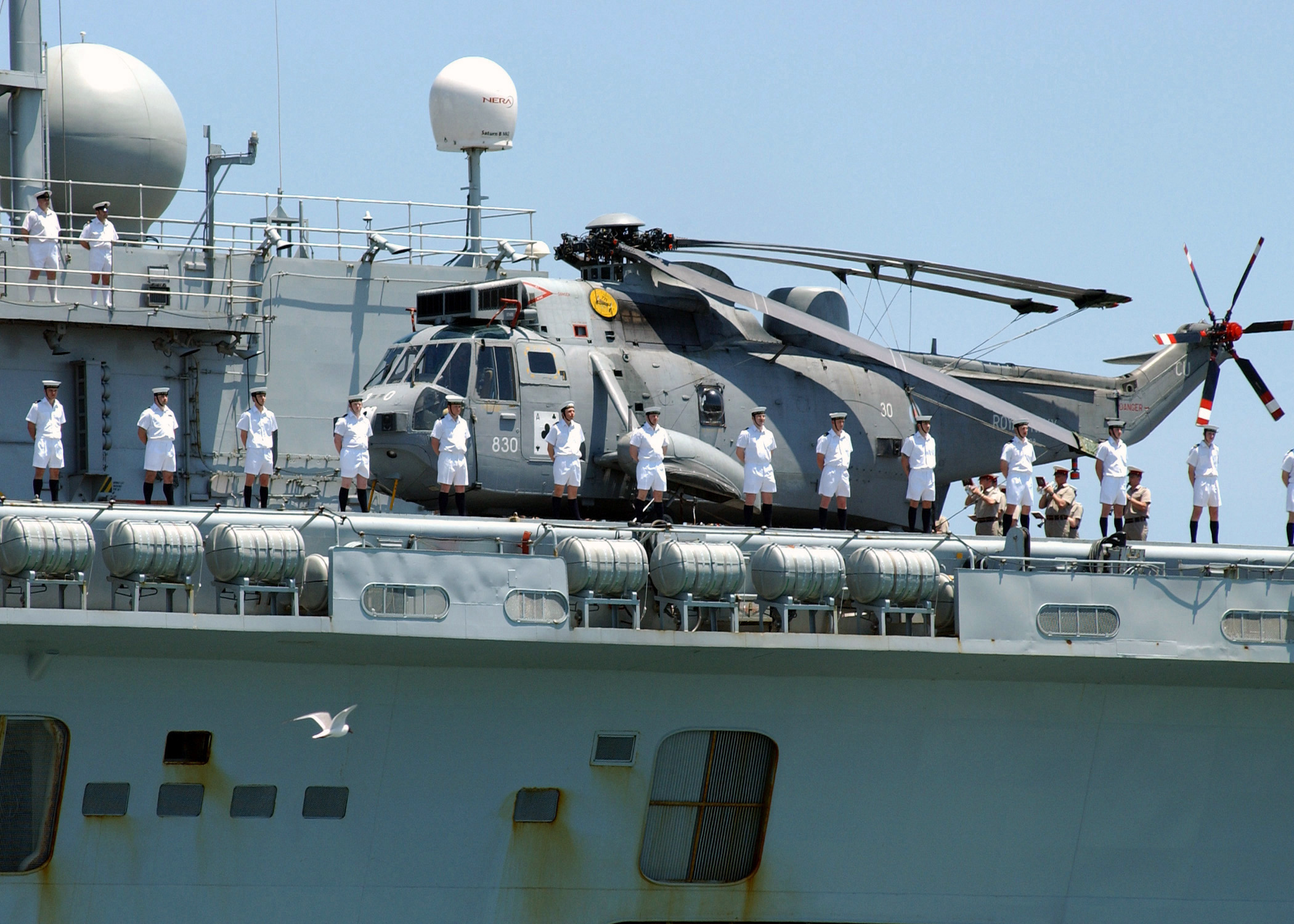 British Royal Navy sailors line the rails of the aircraft carrier HMS Invincible (R05) as it arrives for a five-day port visit at in Naval Station (NS), Jacksonville (Florida, USA). A Royal Navy Westland Sea King HAS6 helicopter is spotted on deck. HMS Invincible was decommissioned on 3 August 2005.